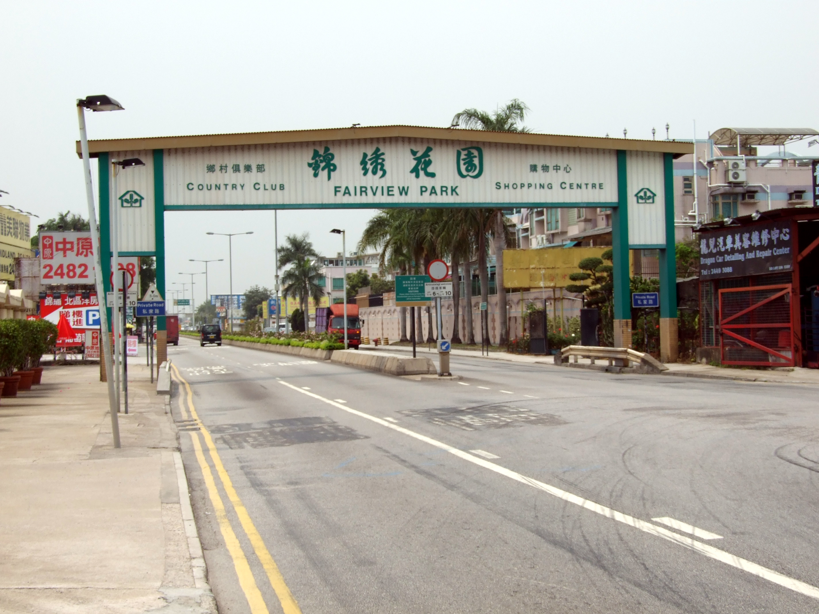 Fairview Park Gateway